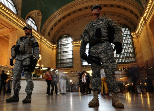 Senior Airman Ashley Espin, Specialist Casimir Remond, and Specialist Molina, all members of Joint Task Force Empire Shield conduct a patrol Grand Central Station on September 20, 2016 following the recent bombings in Manhattan and New Jersey.